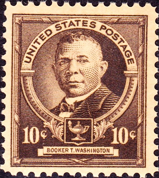 Booker_T_Washington_1940_Issue-10c.jpg